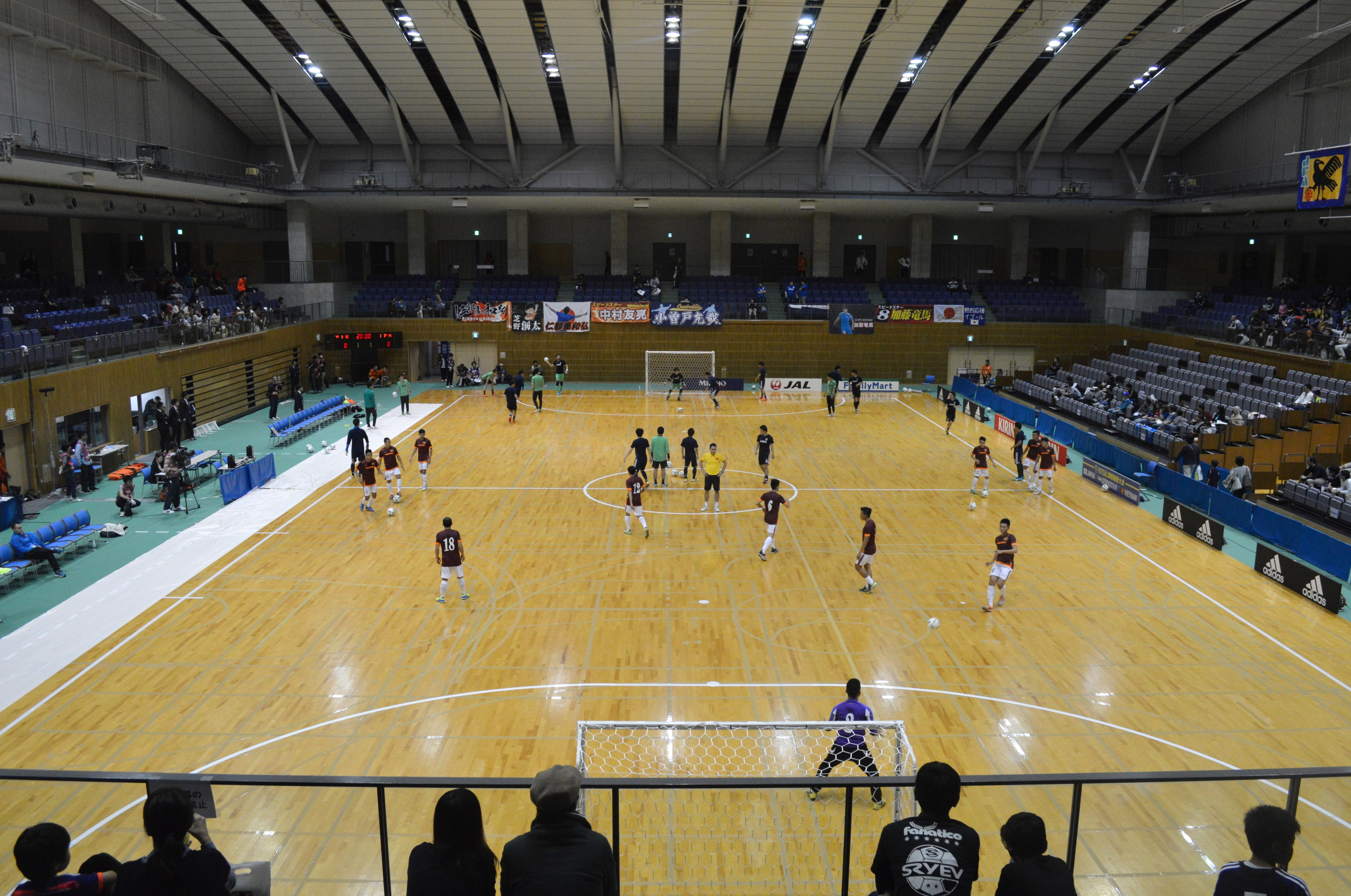 2016-04-22, Futsal International Friendly Tournament, Futsal Japan national team vs Futsal Vietnam national team, in Kariya, Aichi prefecture, Japan.